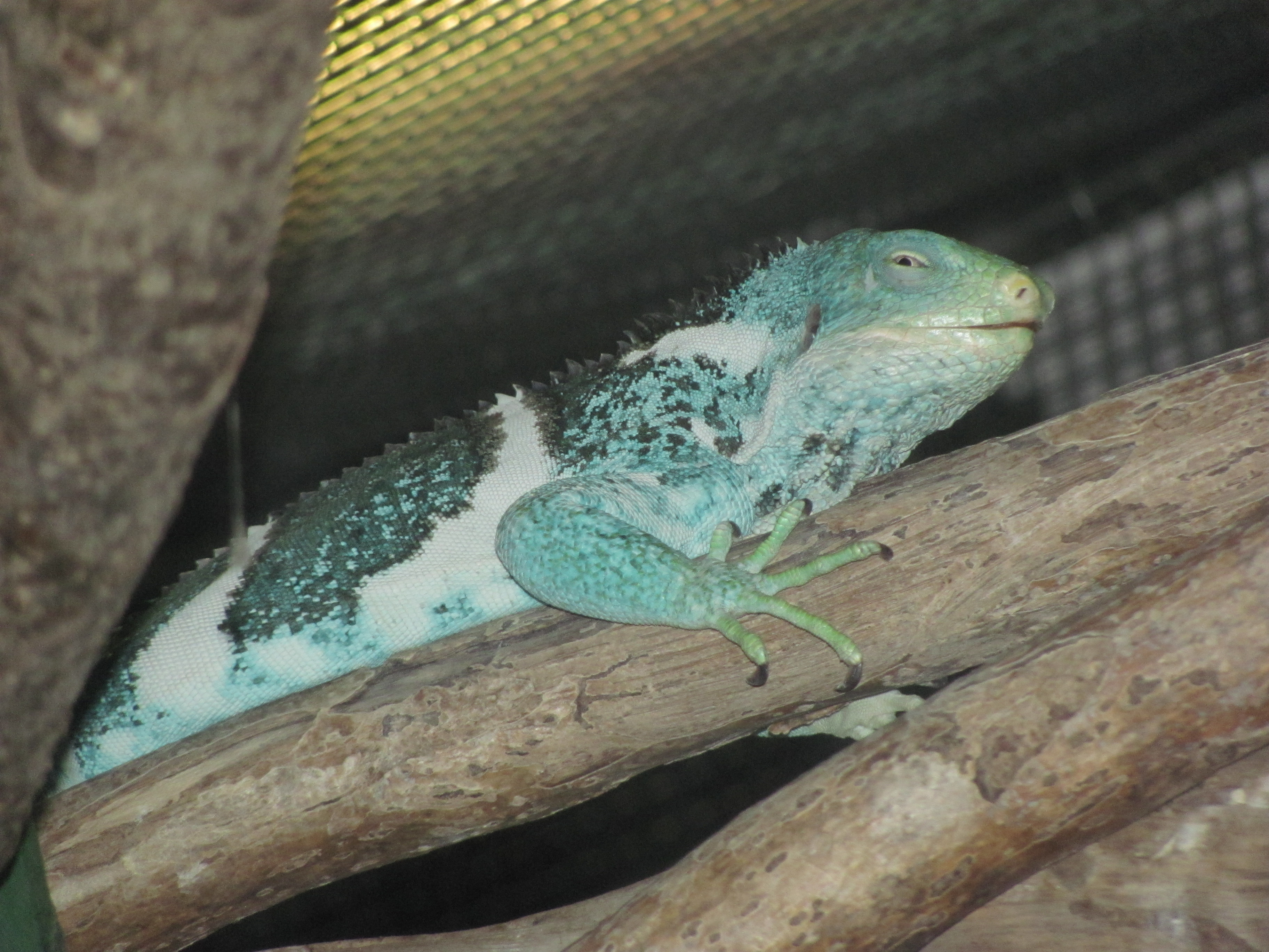 Fiji Crested Iguana (Brachylophus vitiensis)